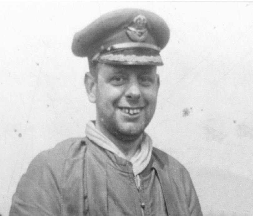 George Herbert Scott (1888-1930) Profile